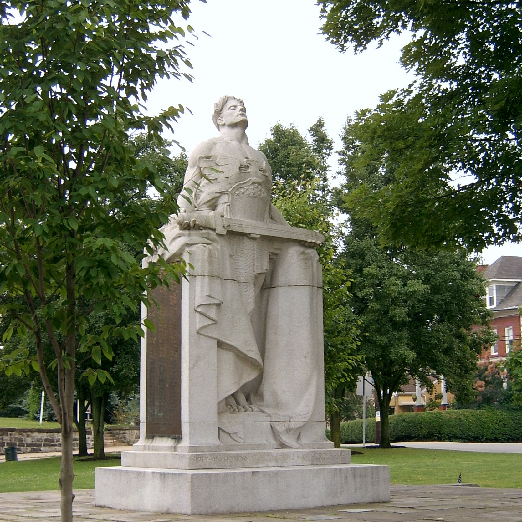 “Sacrifice,” by Allen Newman, a World War I memorial in the Brighton Heights neighborhood of Pittsburgh.